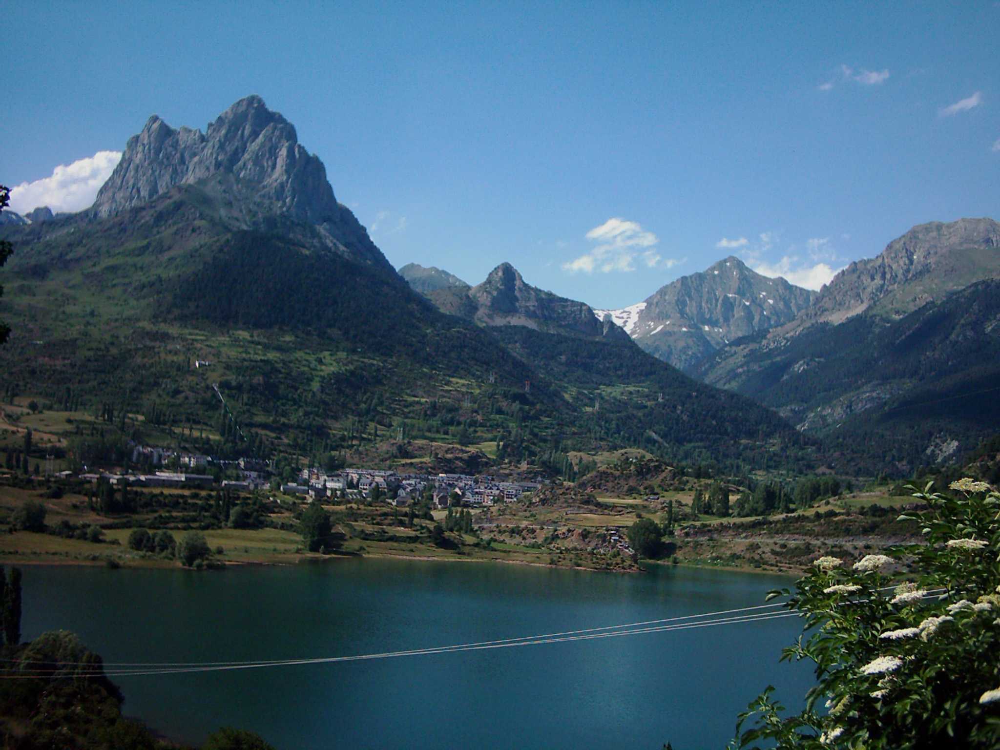 Unknown